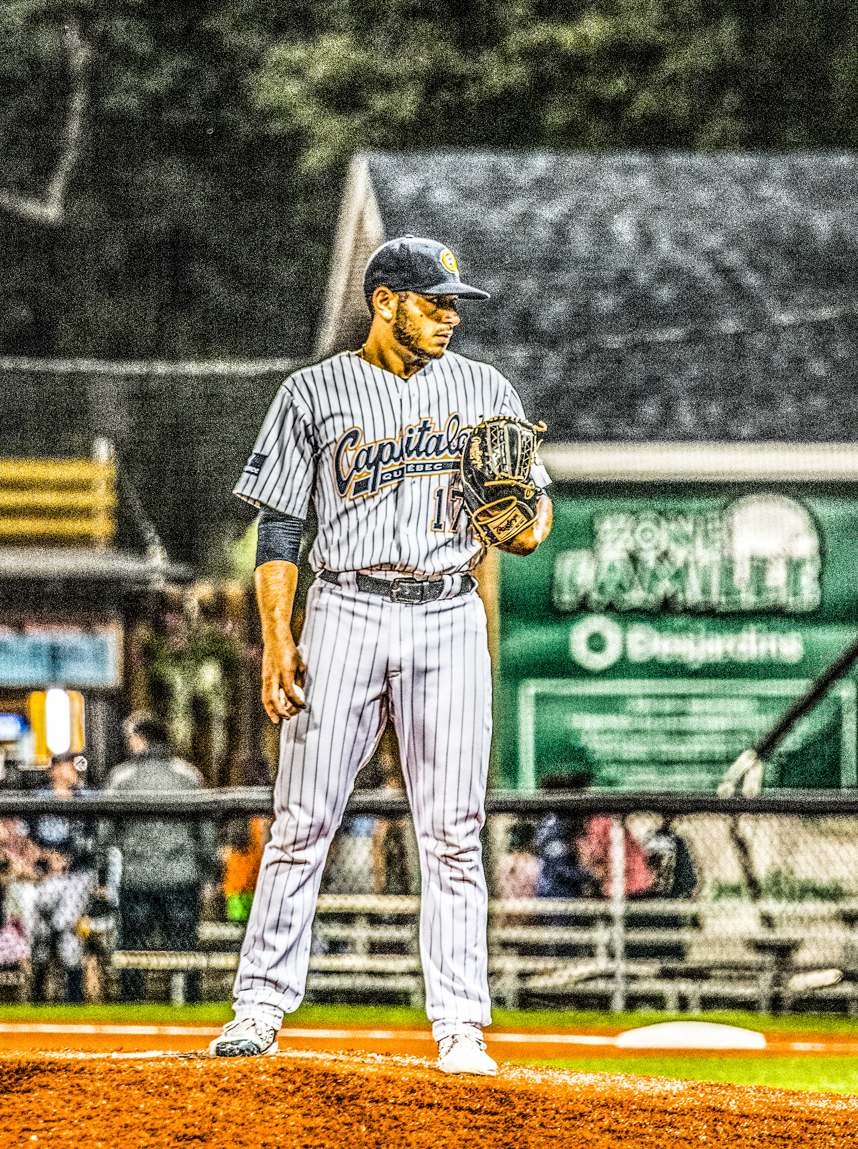 Jonathan DeMarte - On the mount in a Quebec Capitales game, August 2019